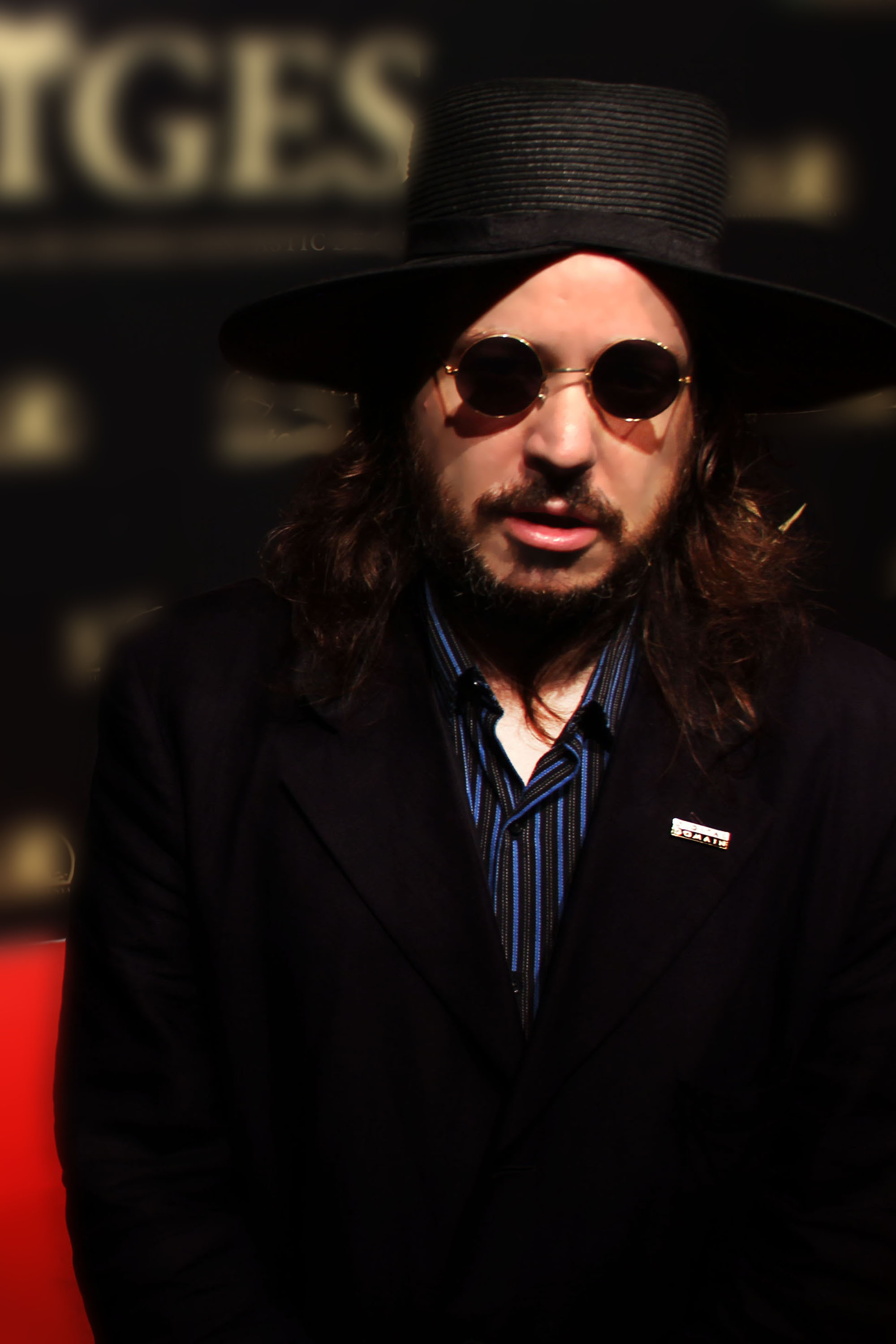 Milos Twilight at The Festival Internacional de Cinema de Catalunya Sitges 2012, presenting his film "Gothic Assassins", in the Closing Night.